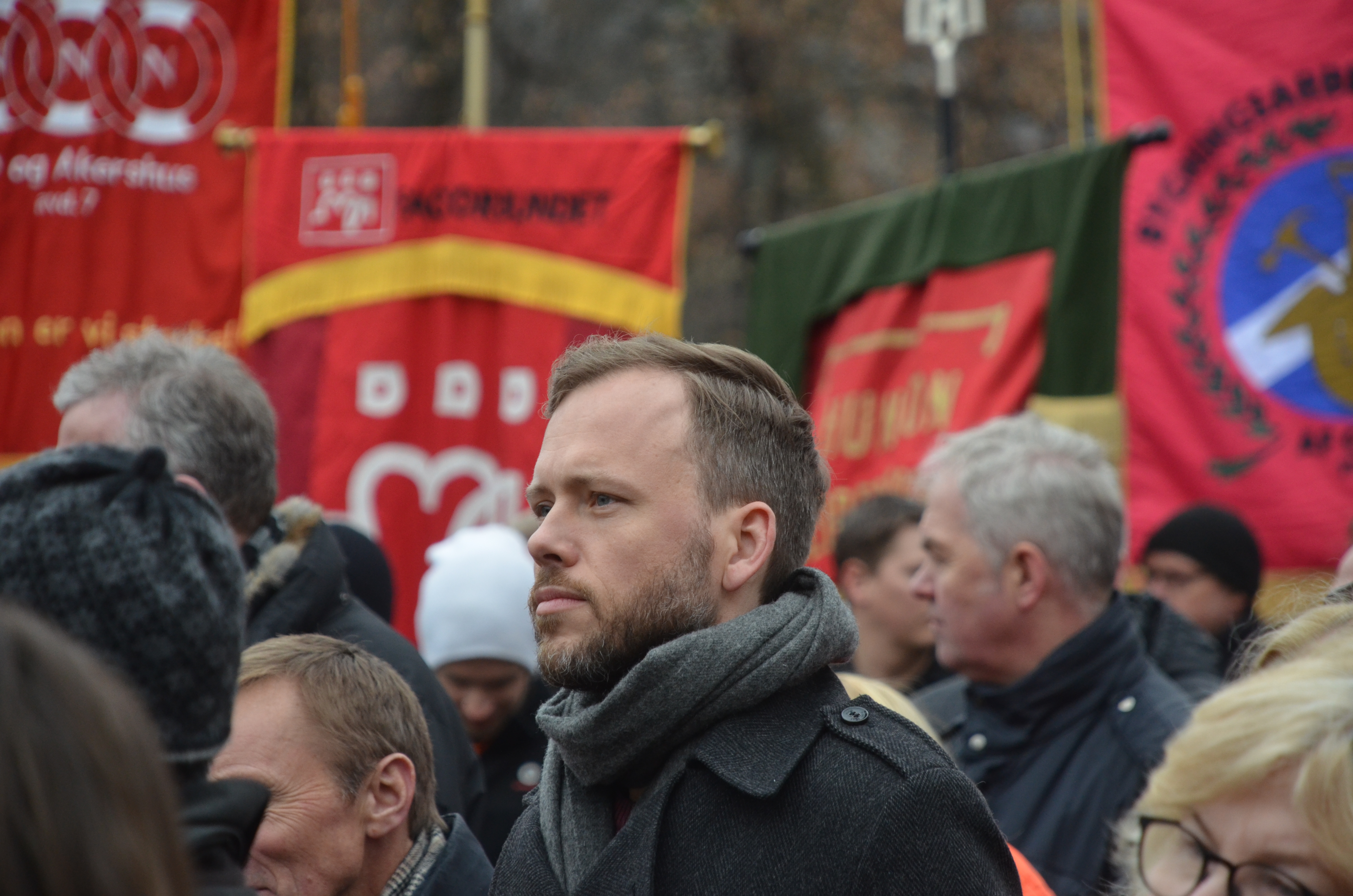 Norwegian politician Audun Lysbakken at a rally in 2017.